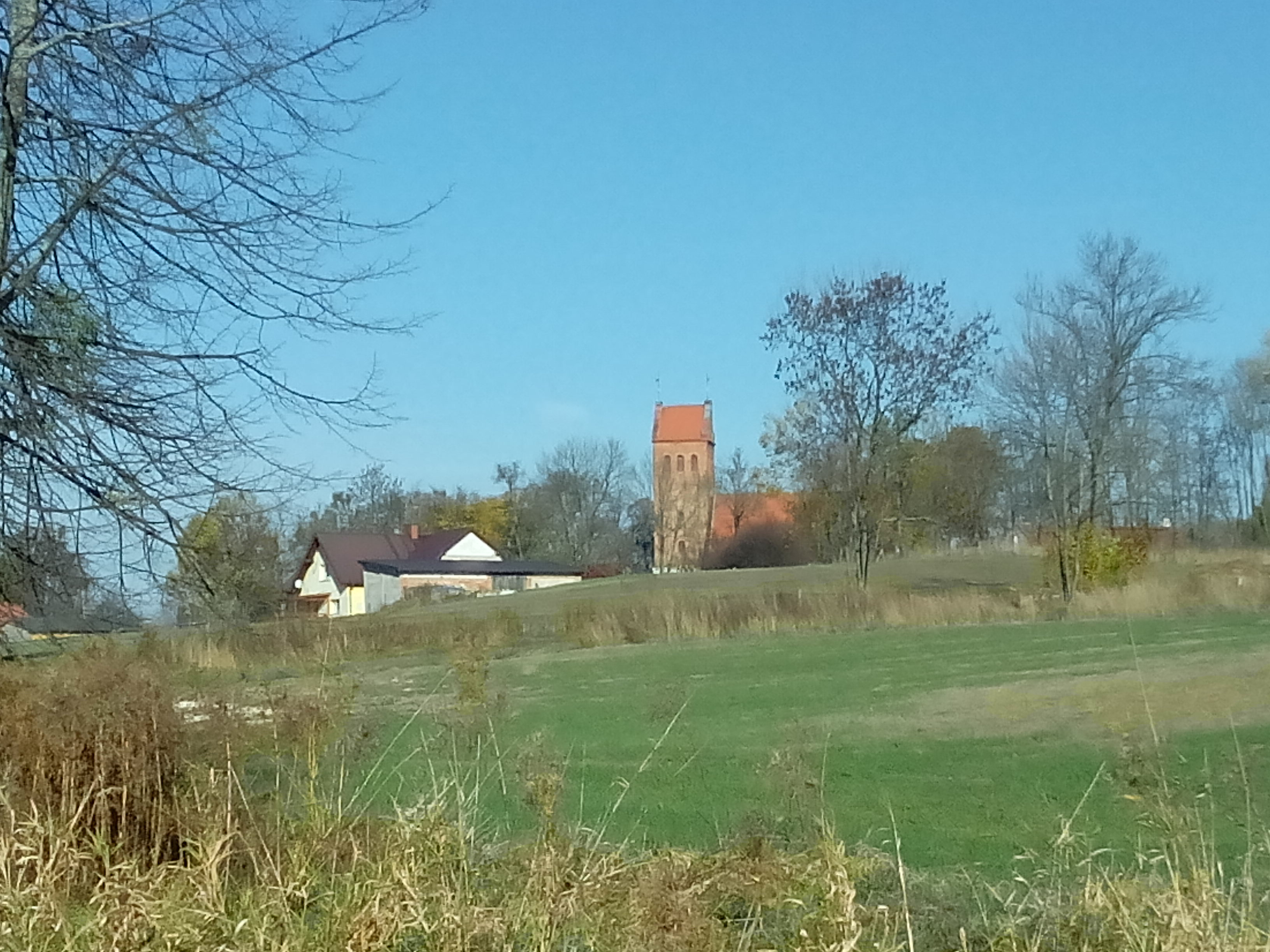 Kwiecewo in 2014 (former Queetz)